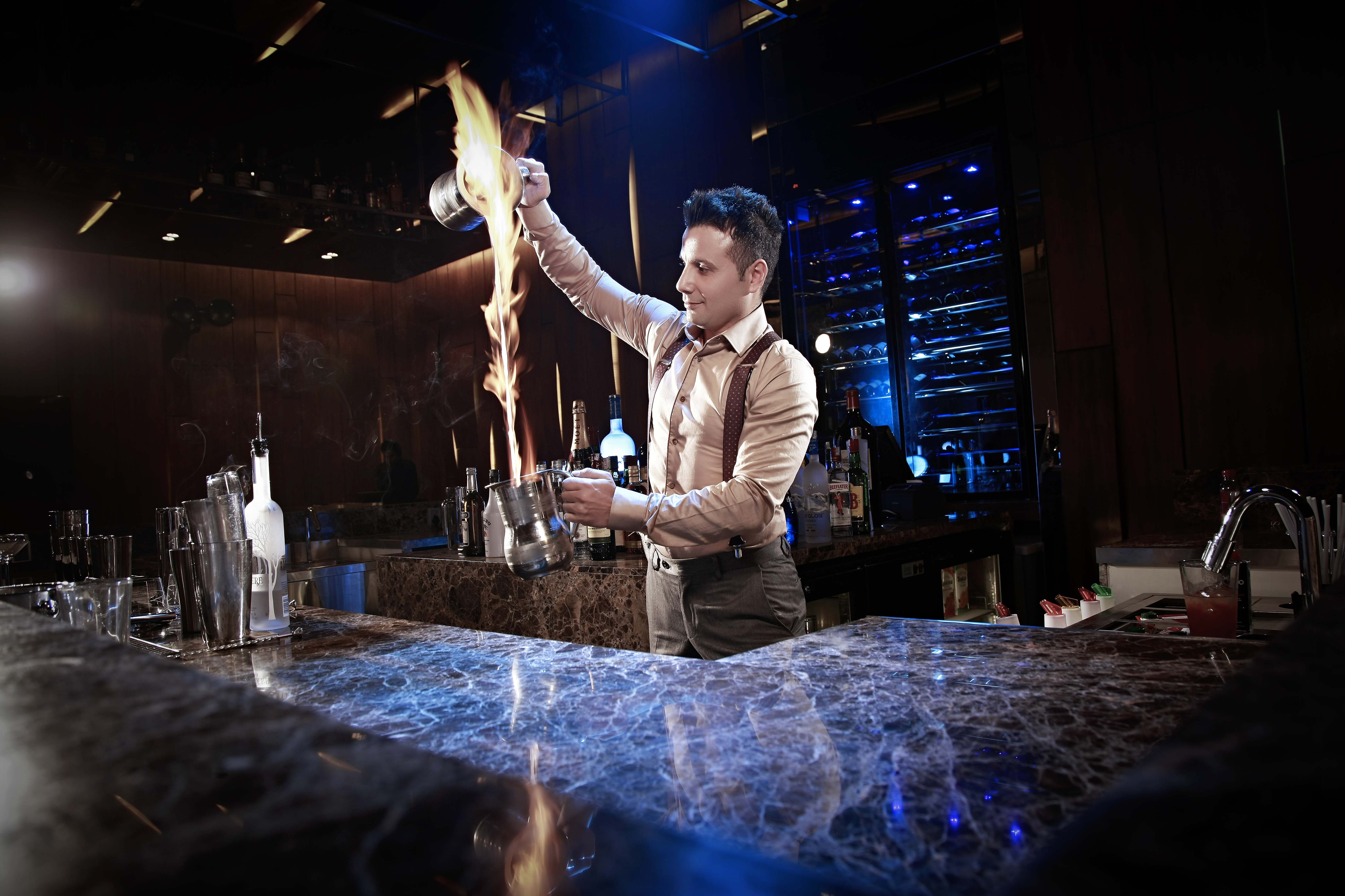 Atilla iskifoglu ates kokteyli.